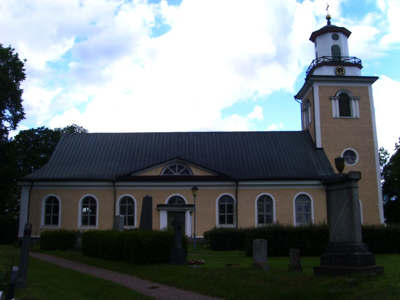 The church in Mörlunda, Småland, Sweden.